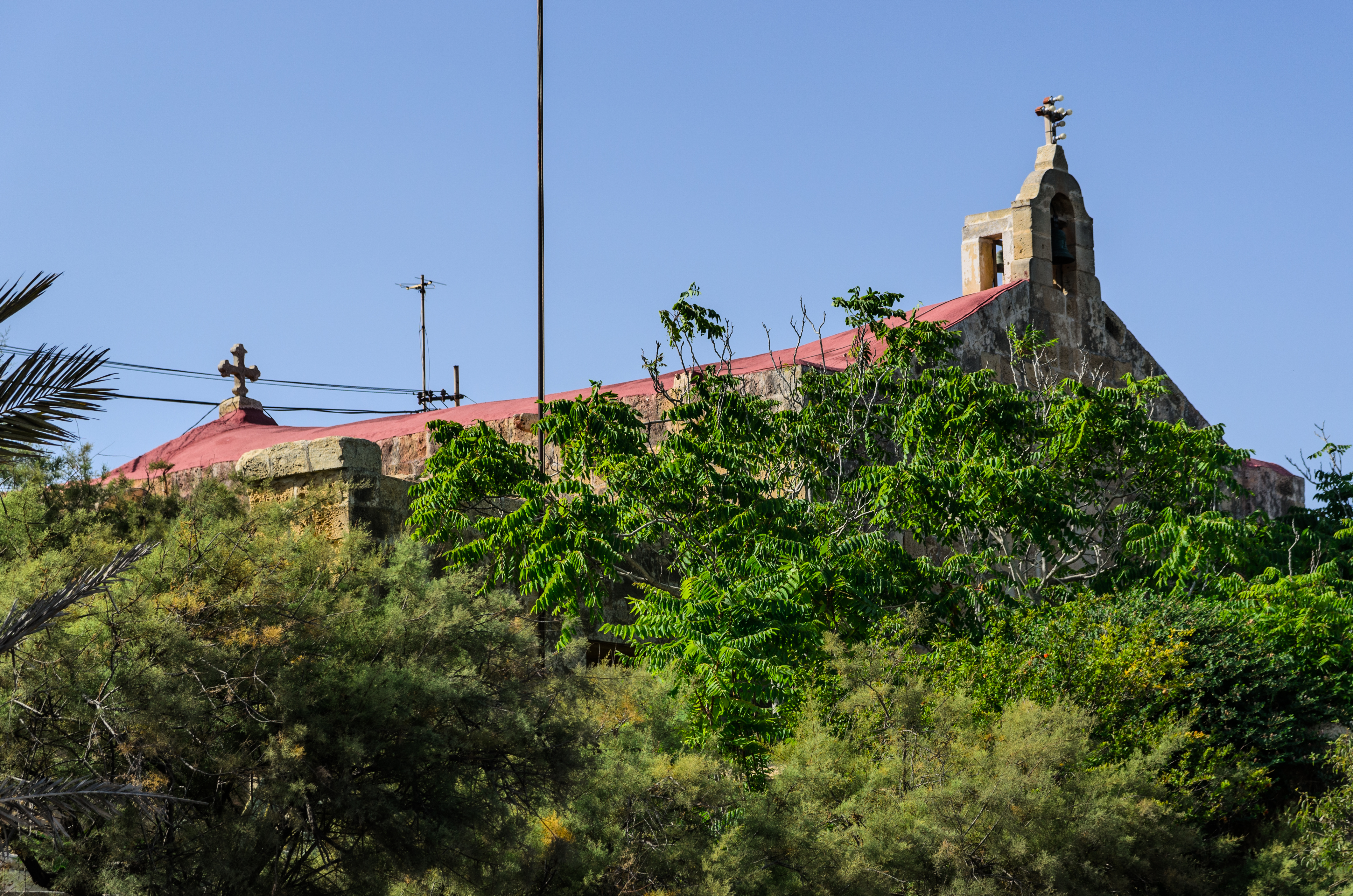 St. George's Chapel in Birżebbuġa, Malta